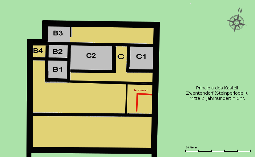 Befundskizze der Principia des Kastell Zwentendorf (A), Steinperiode I,Mitte 2. Jhdt.n.Chr.